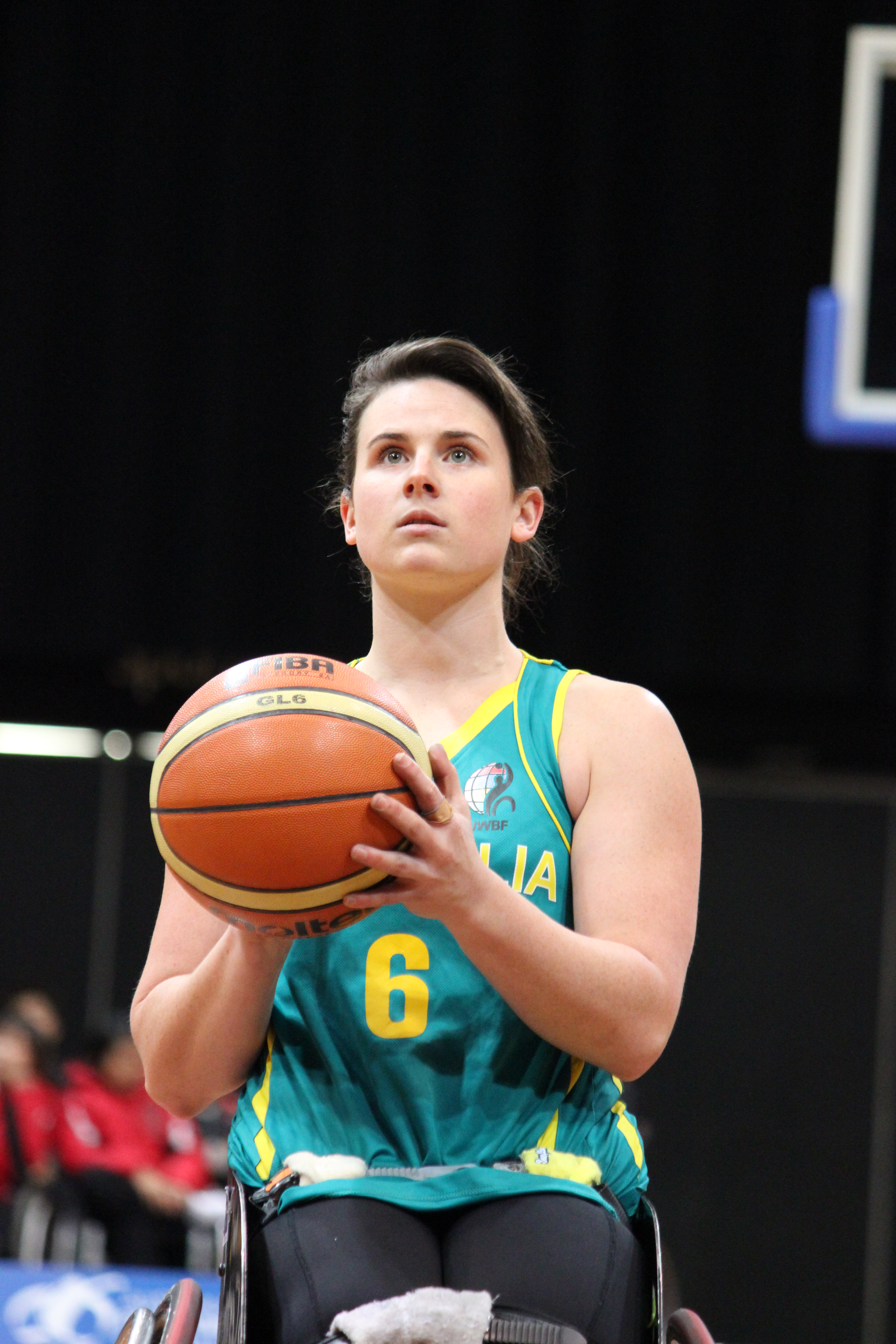 Aussie Gilder player in July 2012 in Sydney.